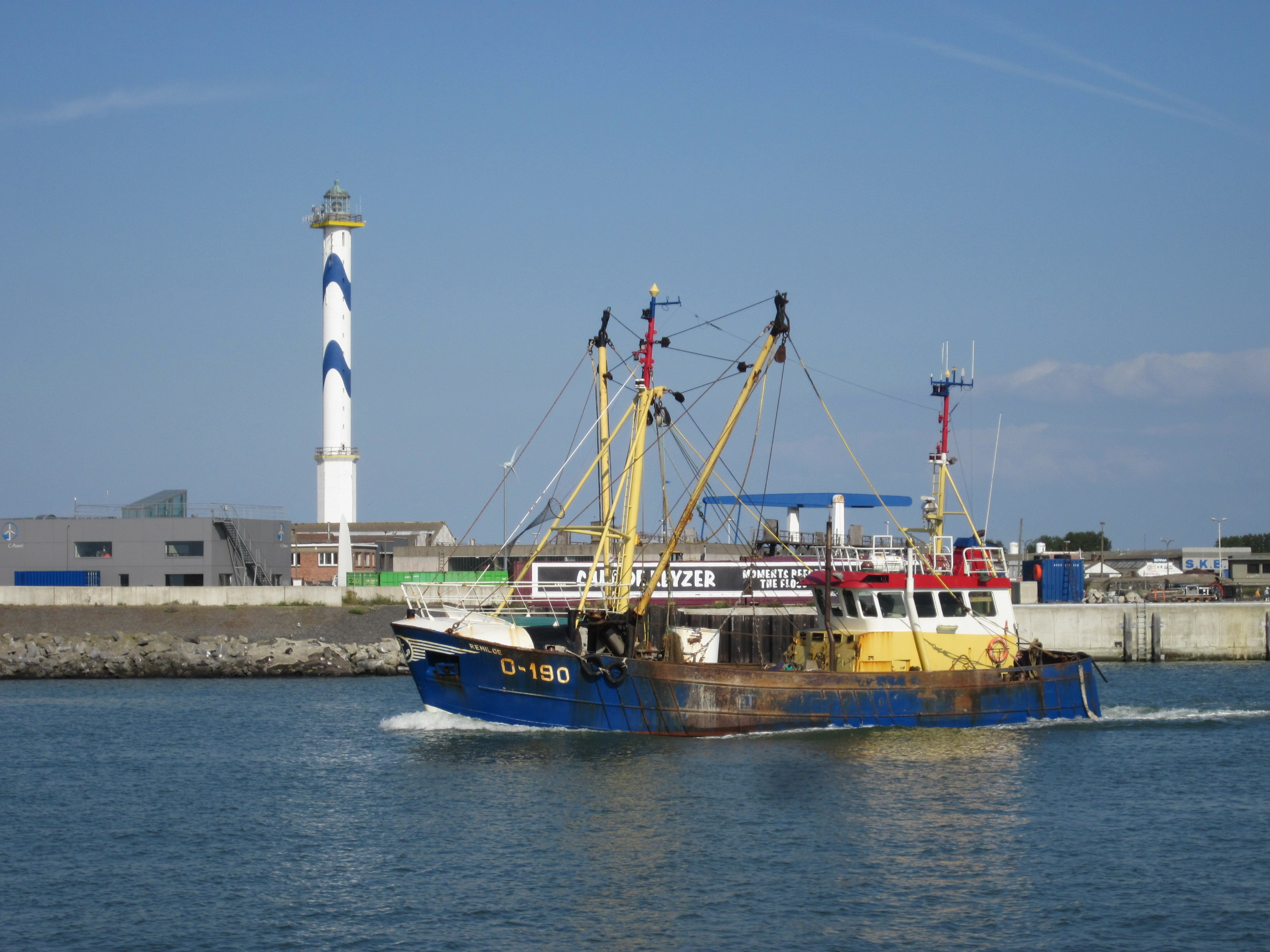 Fishing boat O.190 Renilde in Ostend, Belgium